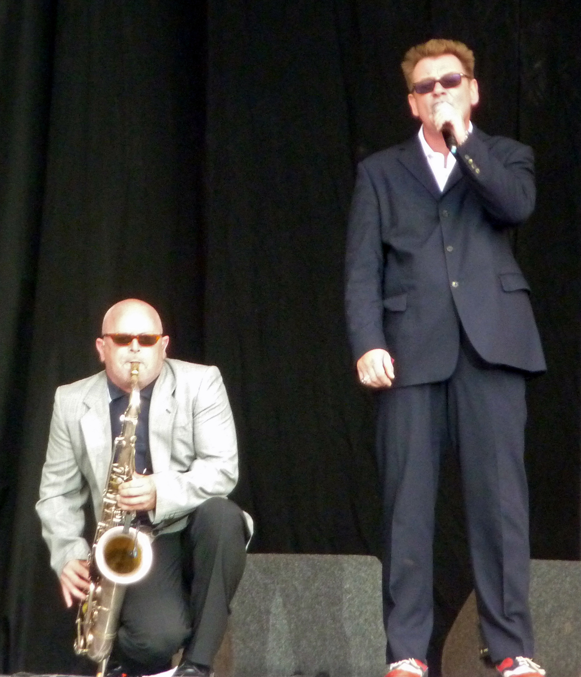 Chas Smash and Lee Thompson of the band Madness onstage in 2009